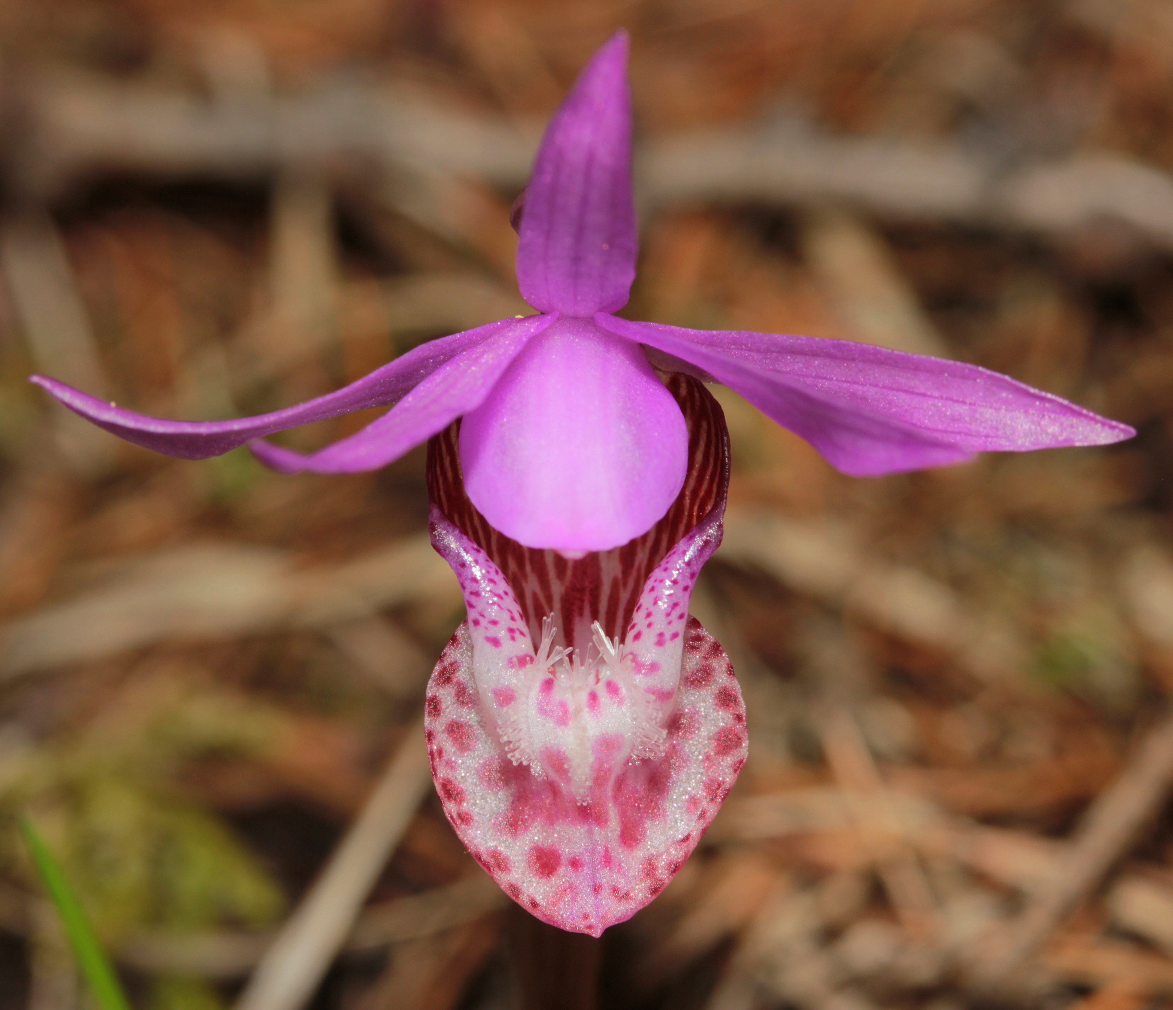 A Calypso orchid blooming in the Rattlesnake National Recreational Area, Missoula, Montana, 16 April 2016.